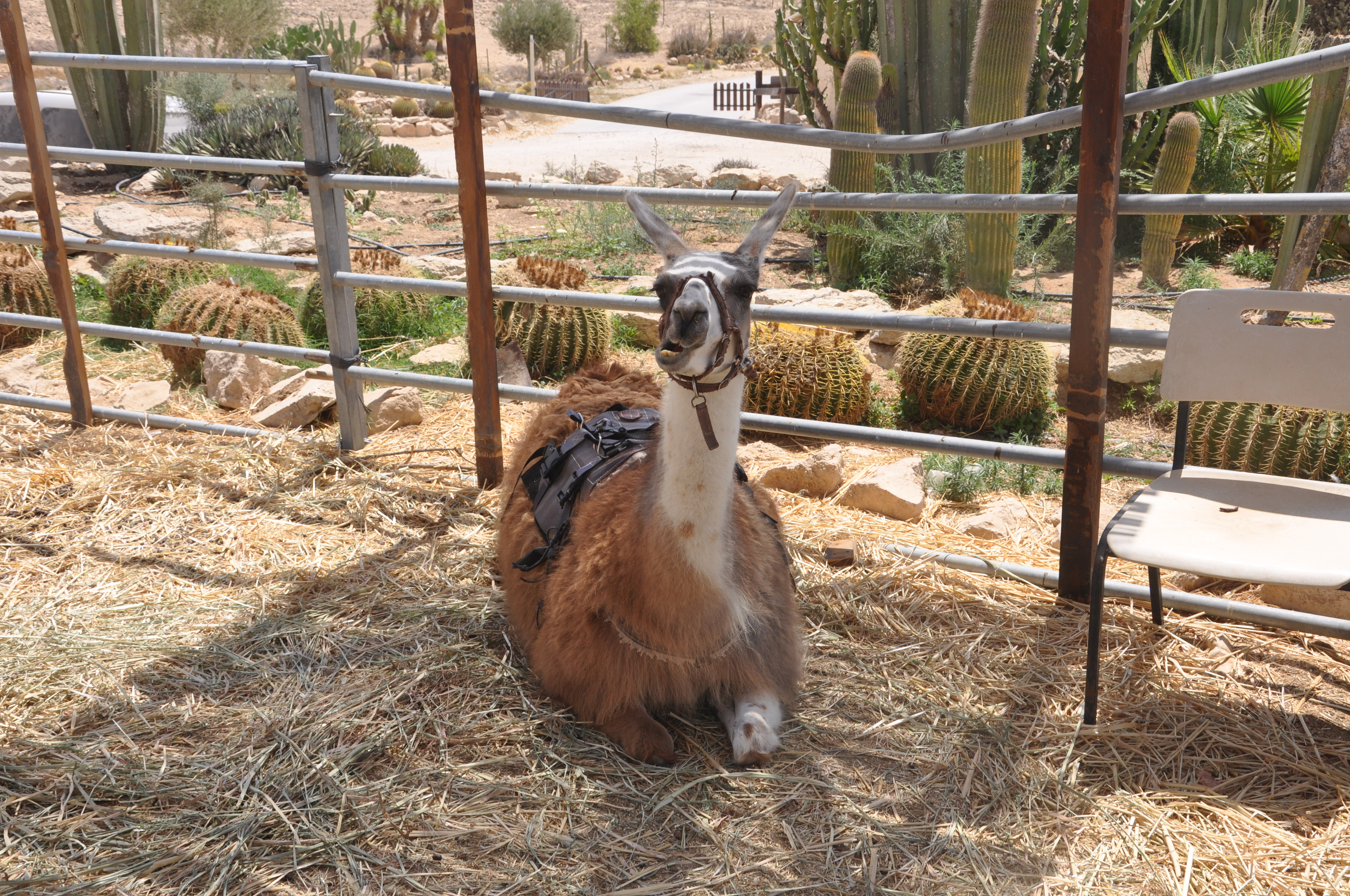 Photos from a visit to the Alpaca Farm outside Mizpe Ramon in the Negev Desert, Israel during July 2012 Mitzpe Ramon